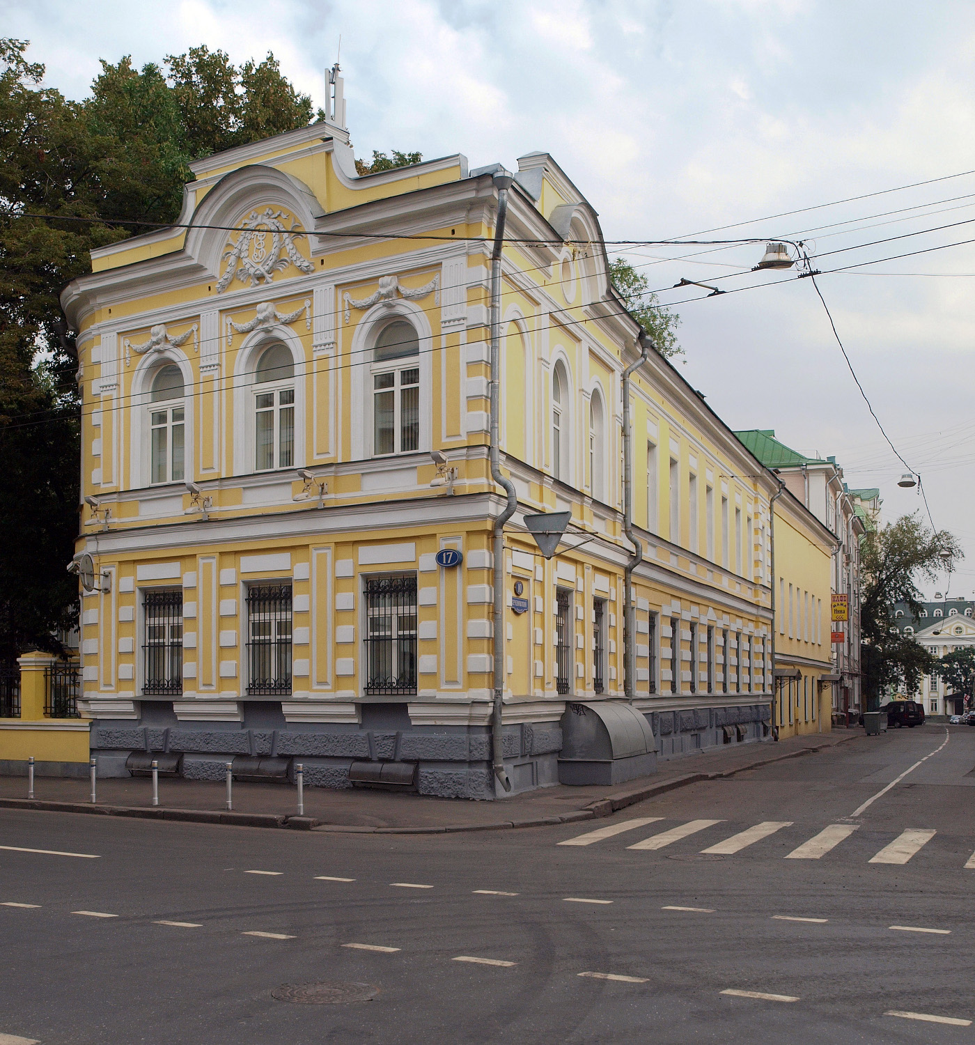 Prechistenka Street, Moscow.